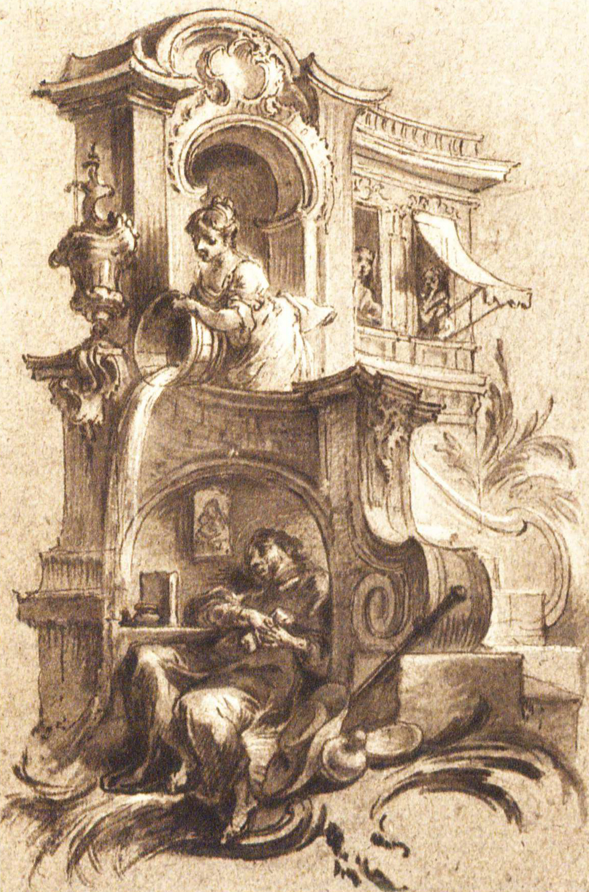 Alexius of Edessa, ink sketch by Johann Wolfgang Baumgartner, reproduced as a photogravure print